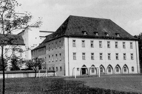 boarding school Ottonianum in Bamberg, Upper Franconia, Germany